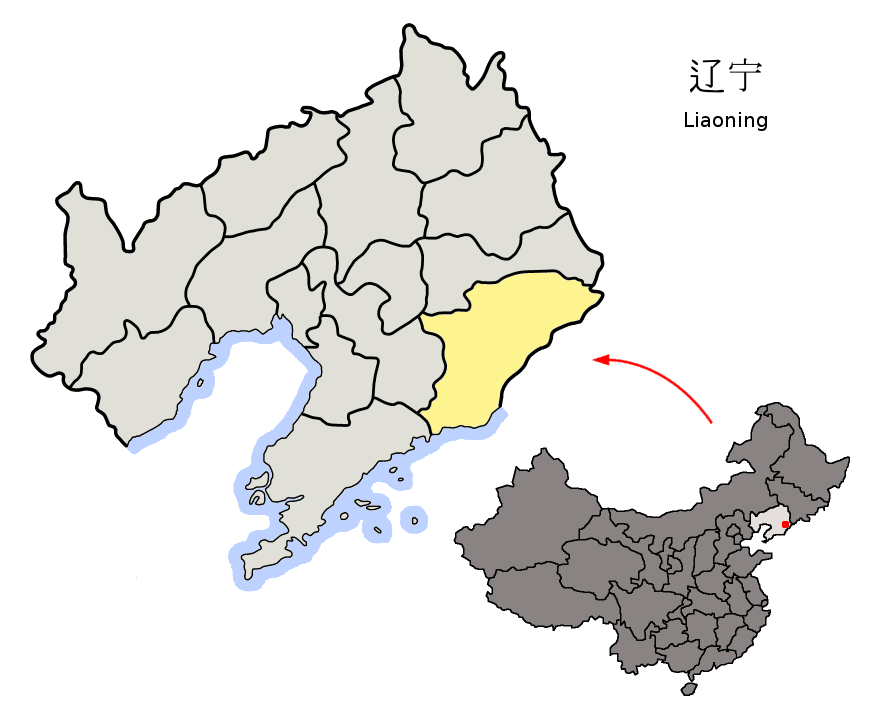 Location of Dandong Prefecture (yellow) within Liaoning Province of China Map drawn in november 2007 using various sources, mainly : Liaoning Province administrative regions GIS data: 1:1M, County level, 1990 Liaoning Counties map from